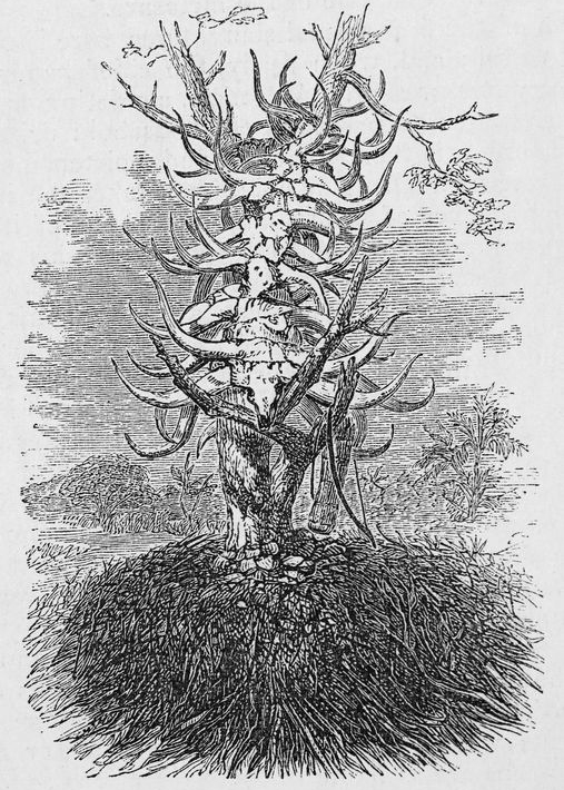 Damara Grave